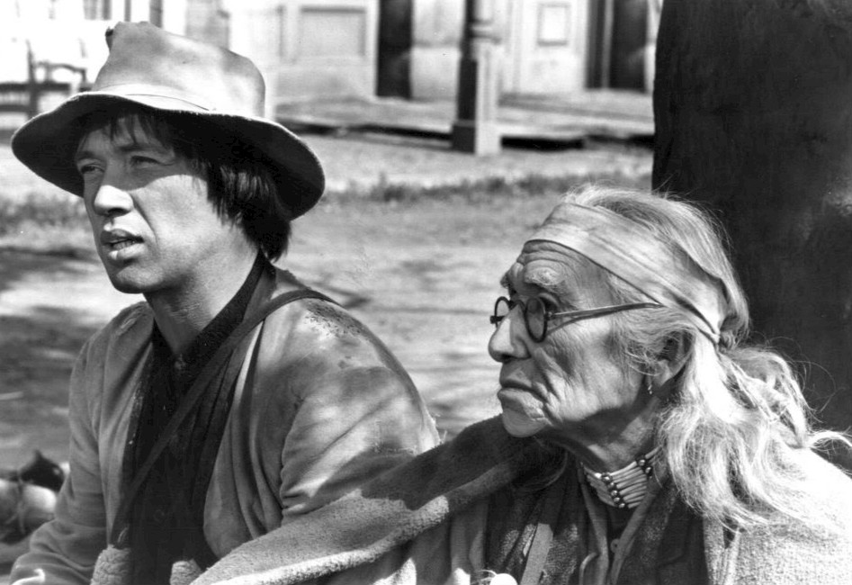 Photo of David Carradine and Chief Dan George from the television program Kung Fu.